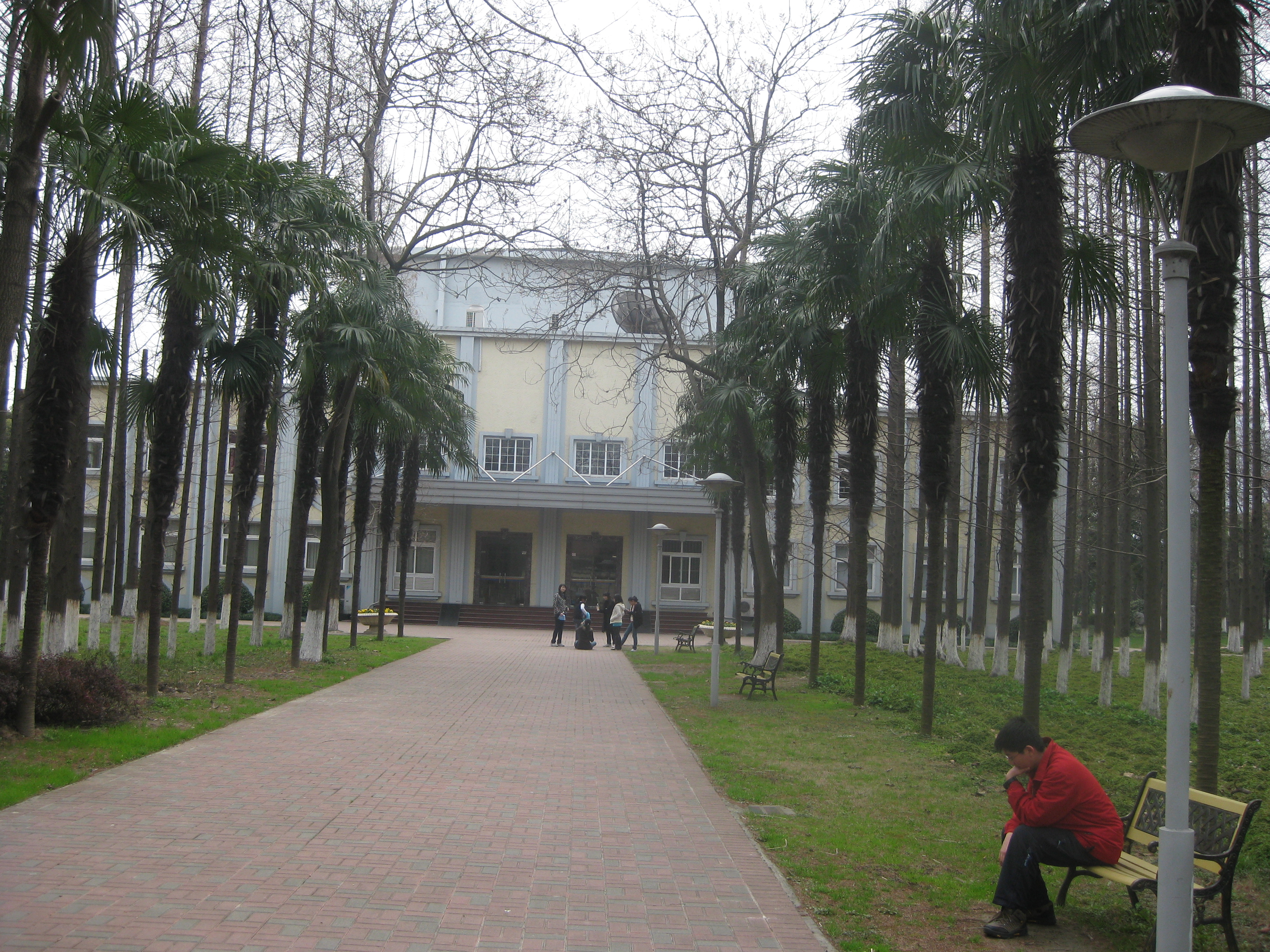 A picture of the SHSID Auditorium (South Side).